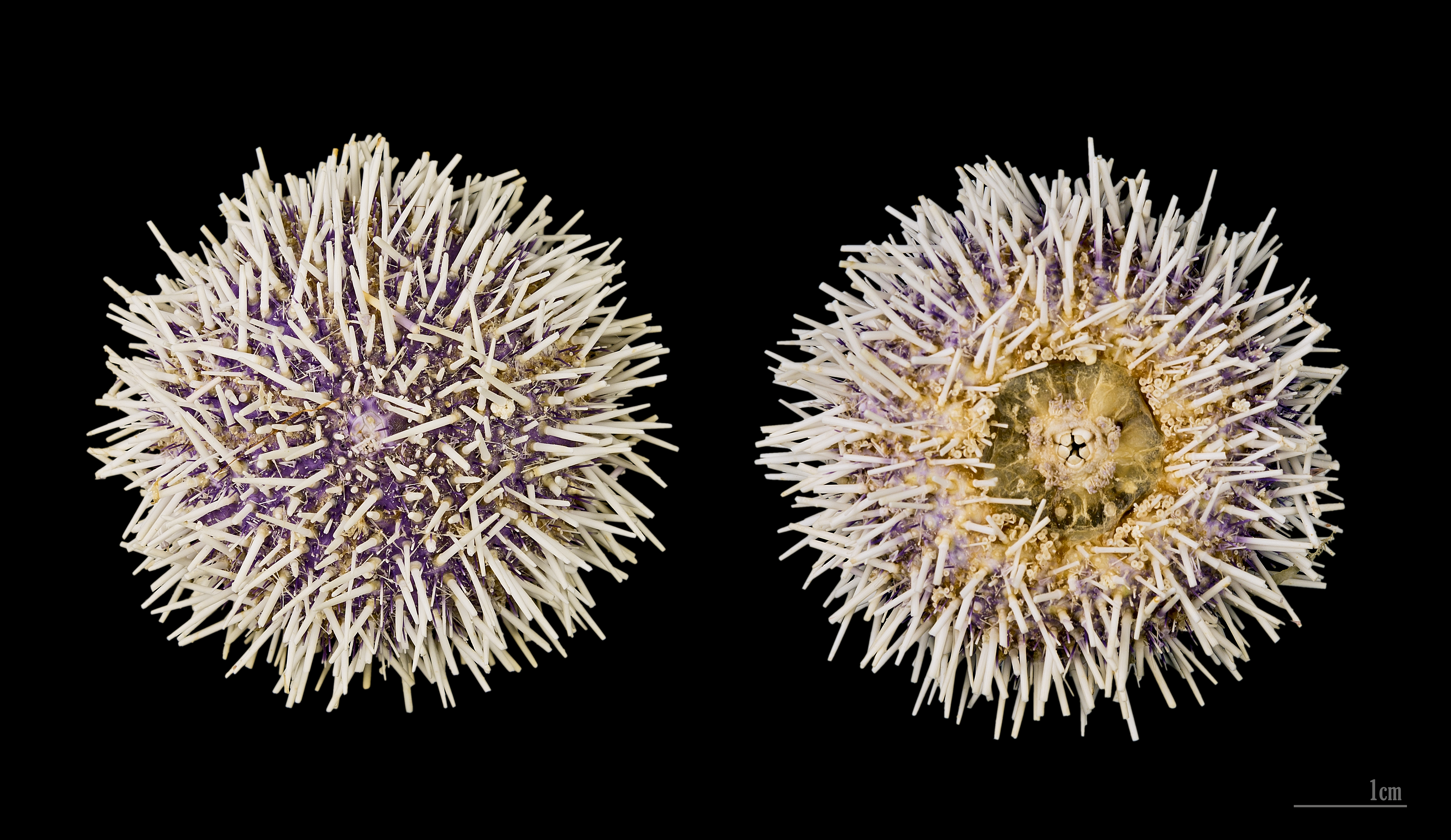 Purple sea urchin - Two views of same specimen.